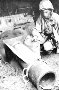 Japanese Type 98 320 mm mortar, also known as "spigot mortar" , which was captured by US forces at Iwo Jima